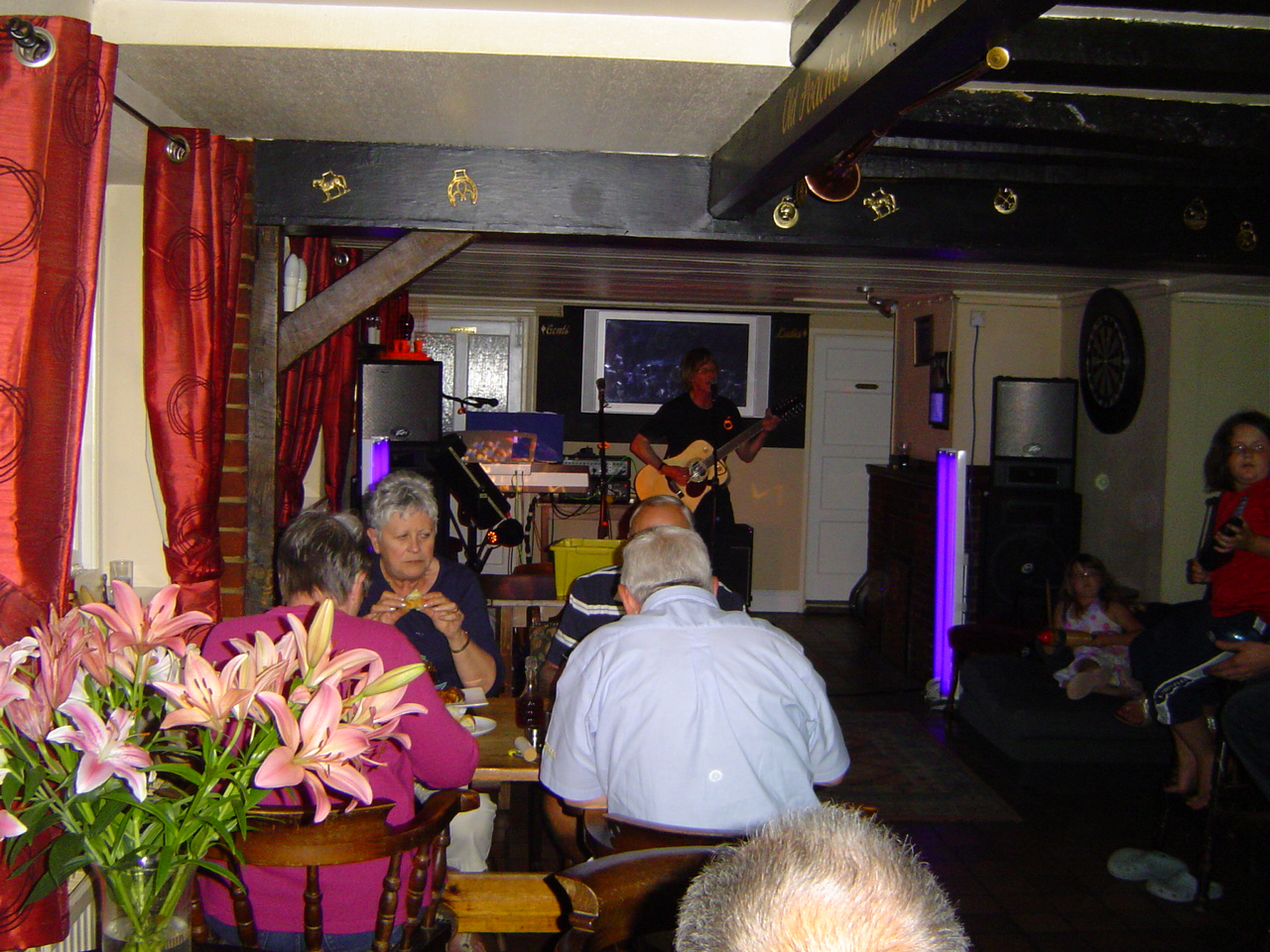 Music and entertainment at the Lawshall Swan.